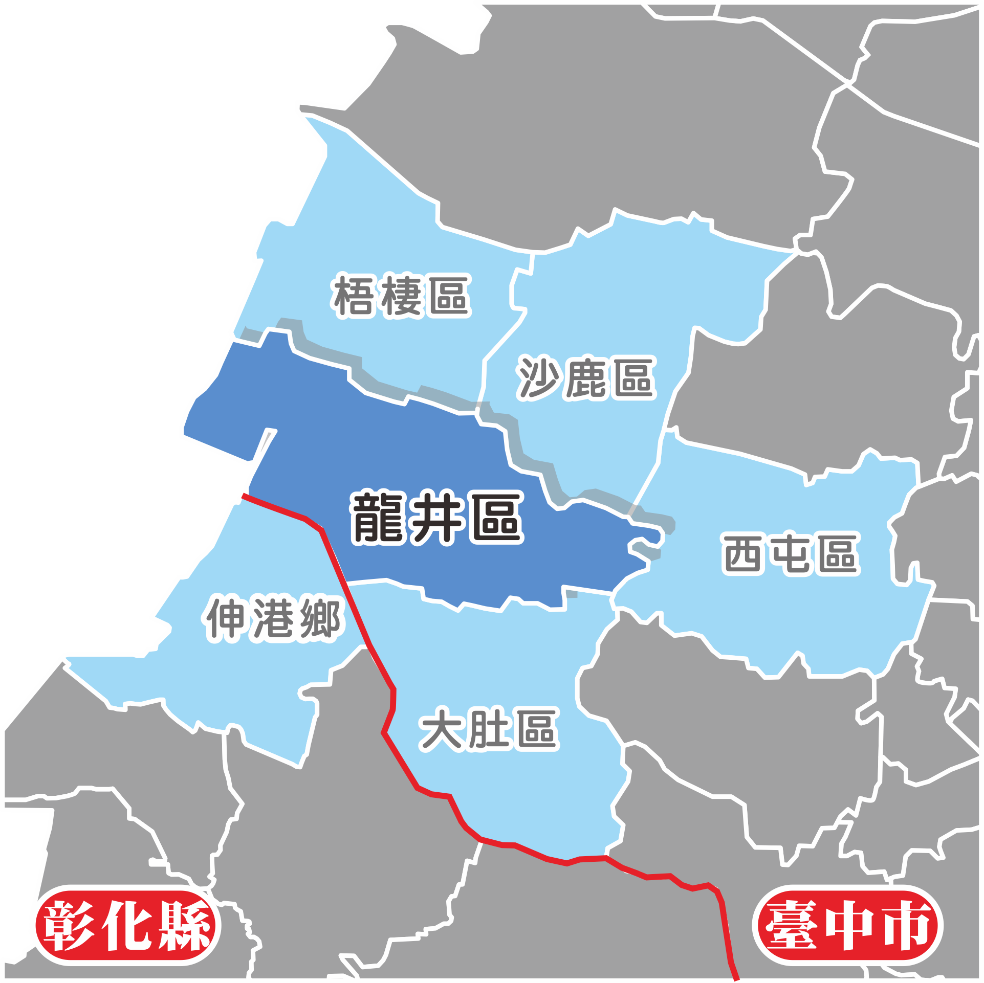 Longjing District